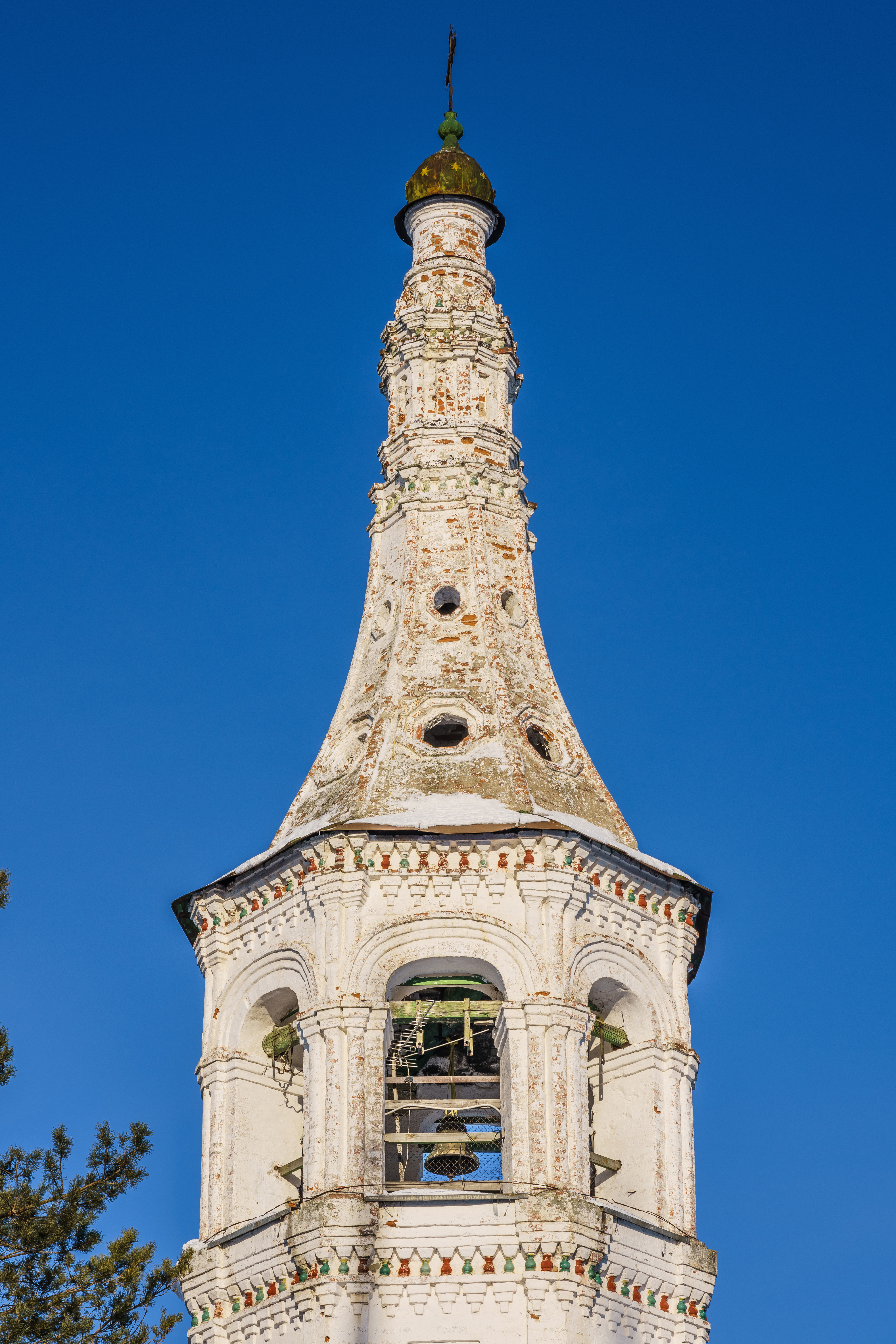 Bell tower of the Church of Our Lady «Joy in Sorrow» in Suzdal, Russia